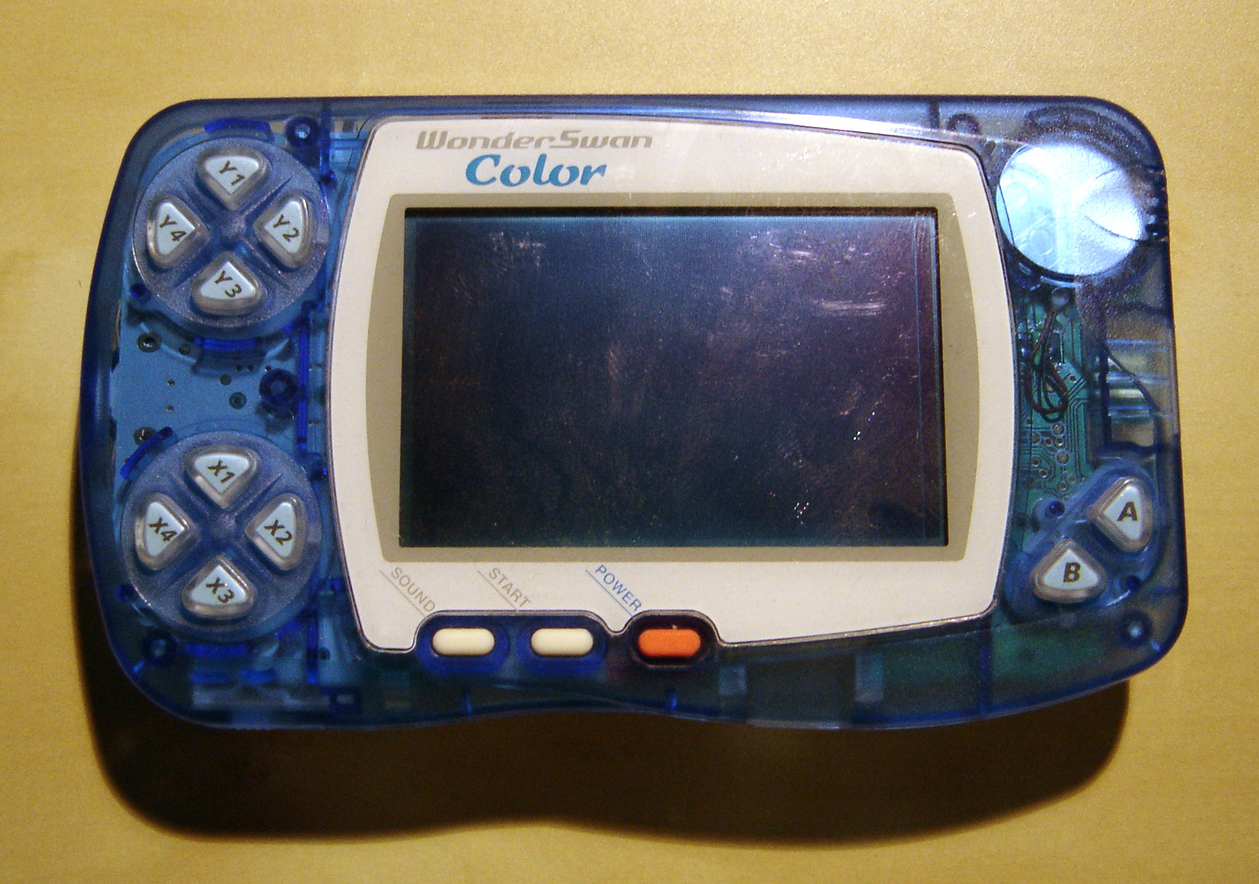 A Wonderswan Color handheld.